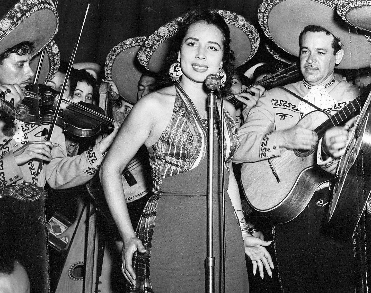 Publicity photo of Mexican singer and actress Flor Silvestre. She is singing ranchera songs with the Mariachi Pulido in a 1955 visit to the Dominican Republic.